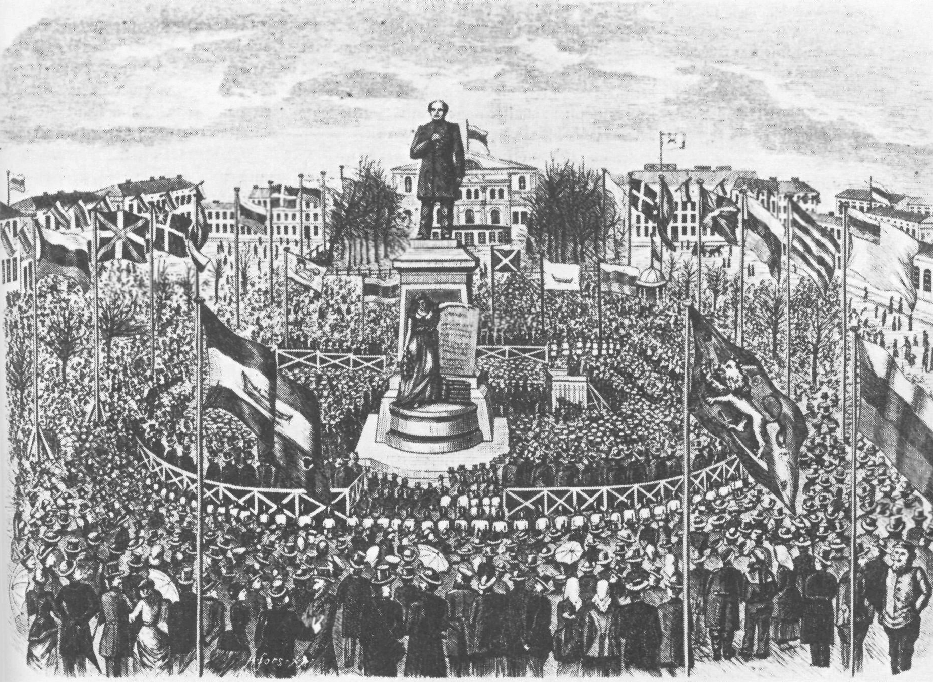 Unveiling of Walter Runeberg's statue of his father, Johan Ludvig Runeberg May 6, 1885 in Esplanadi in Helsinki.